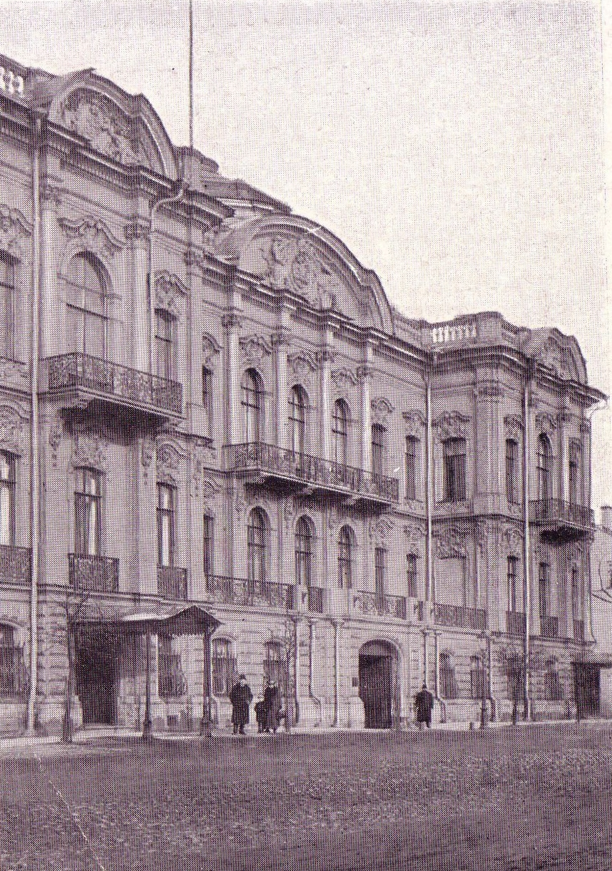 Facade of Austrian Embassy in St Petersburg // «Stolitsa i Usad'ba» Magazine, 1914, №?, «Austrian Embassy in St Petersburg» article.